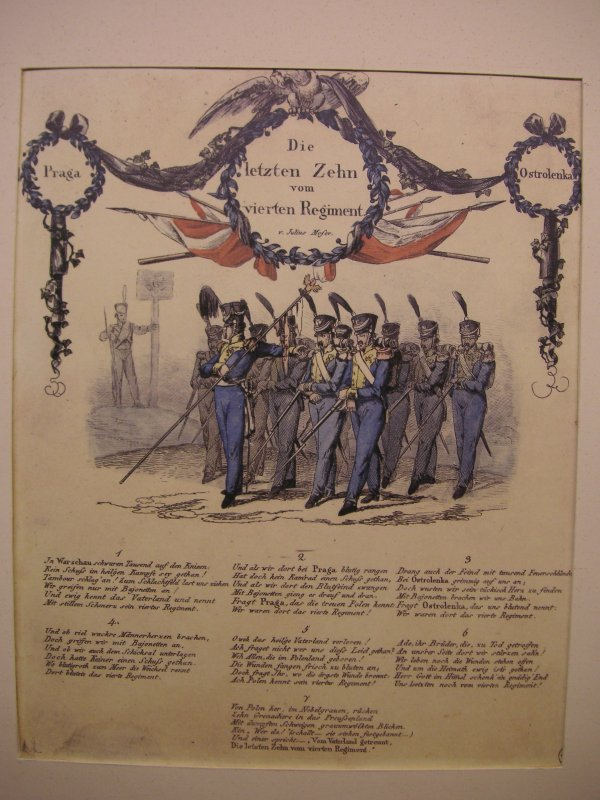 made during a summer day in Warsaw's Museum of the Polish Army; The Last Ten of the 4th Regiment, a romantic poem in German glorifying the Polish 4th Infantry Regiment after the Battle of Ostrołęka